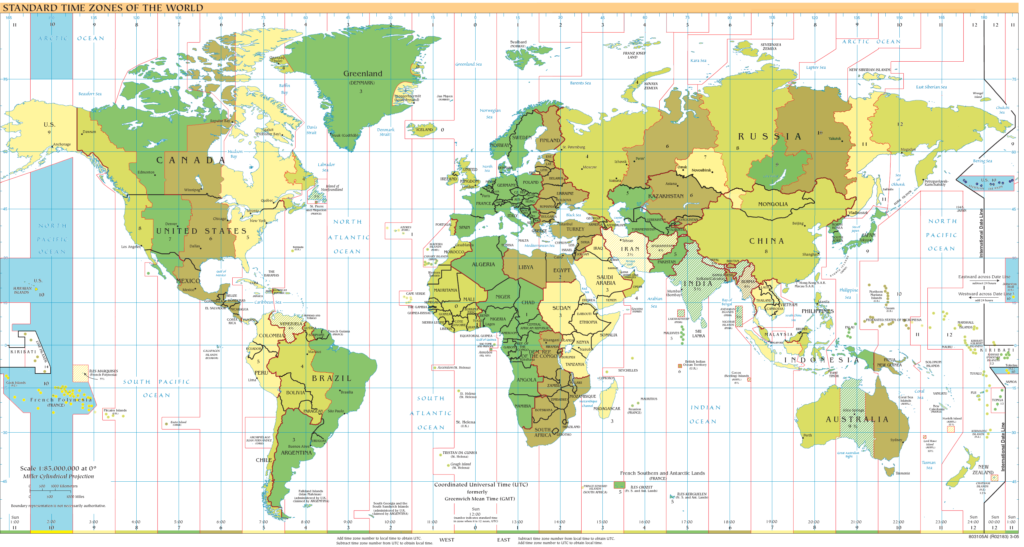 Copy of Timezones2008.png Edited to highlight UTC-10 Light Blue UTC-10 Sea Areas Dark Blue UTC-10 Northern Winter / Southern Summer (e.g. Decemeber) Orange UTC-10 Northern Summer / Southern Winter (e.g. June) Yellow UTC-10 All year round